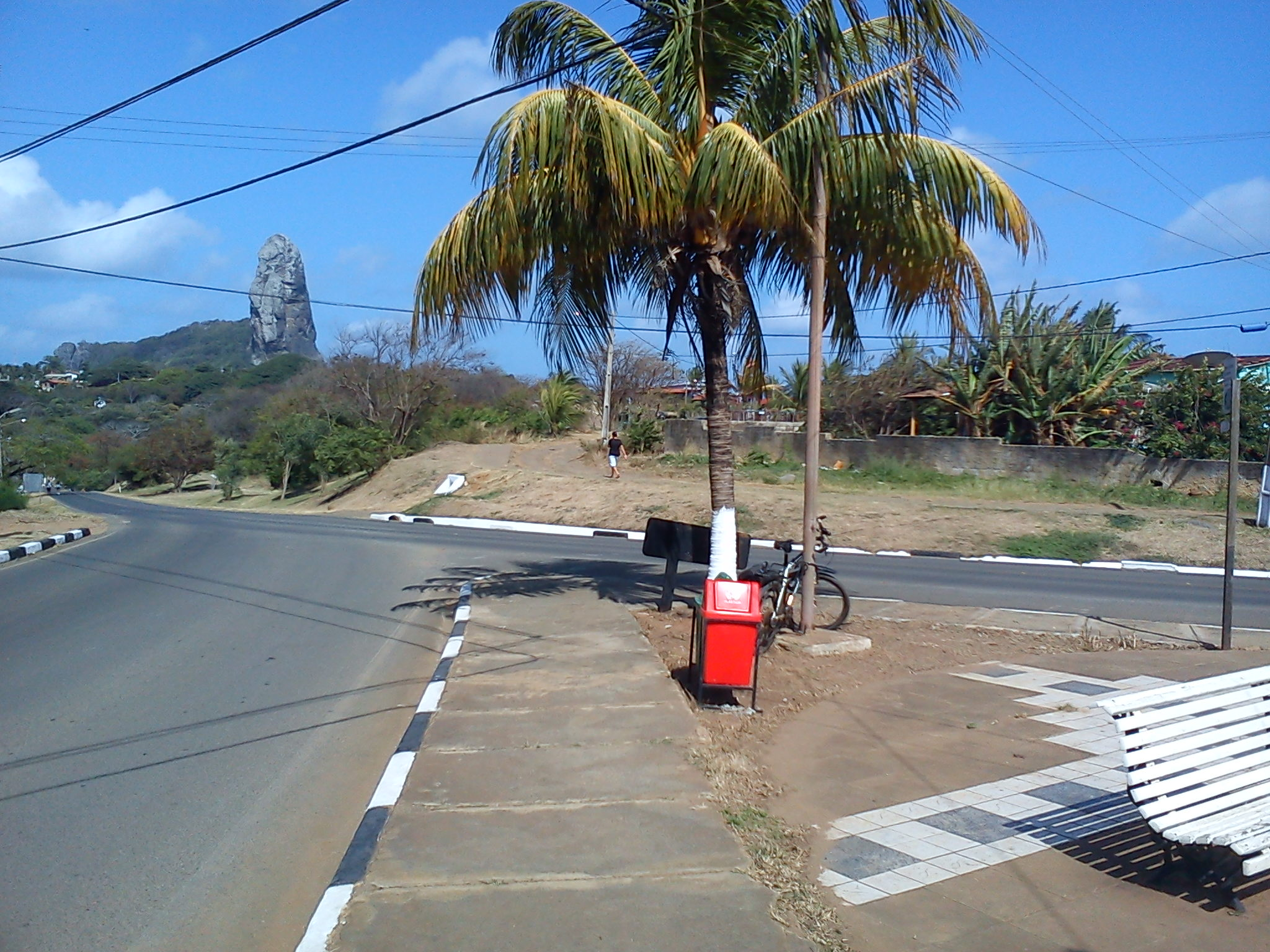 BR-363 Highway - Fernando de Noronha - Pernambuco - Brazil